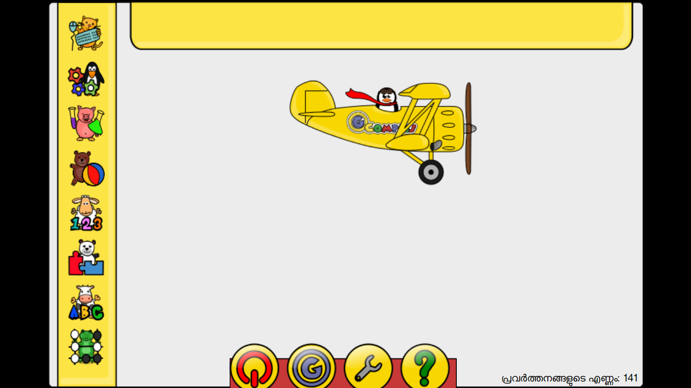 Screenshot of Main Menu of Gcompris V15.02.